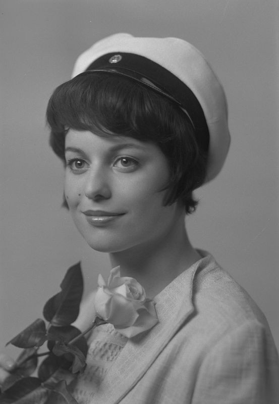 Photograph of the Finnish beauty pageant Satu Procopé née Östring (1947–).